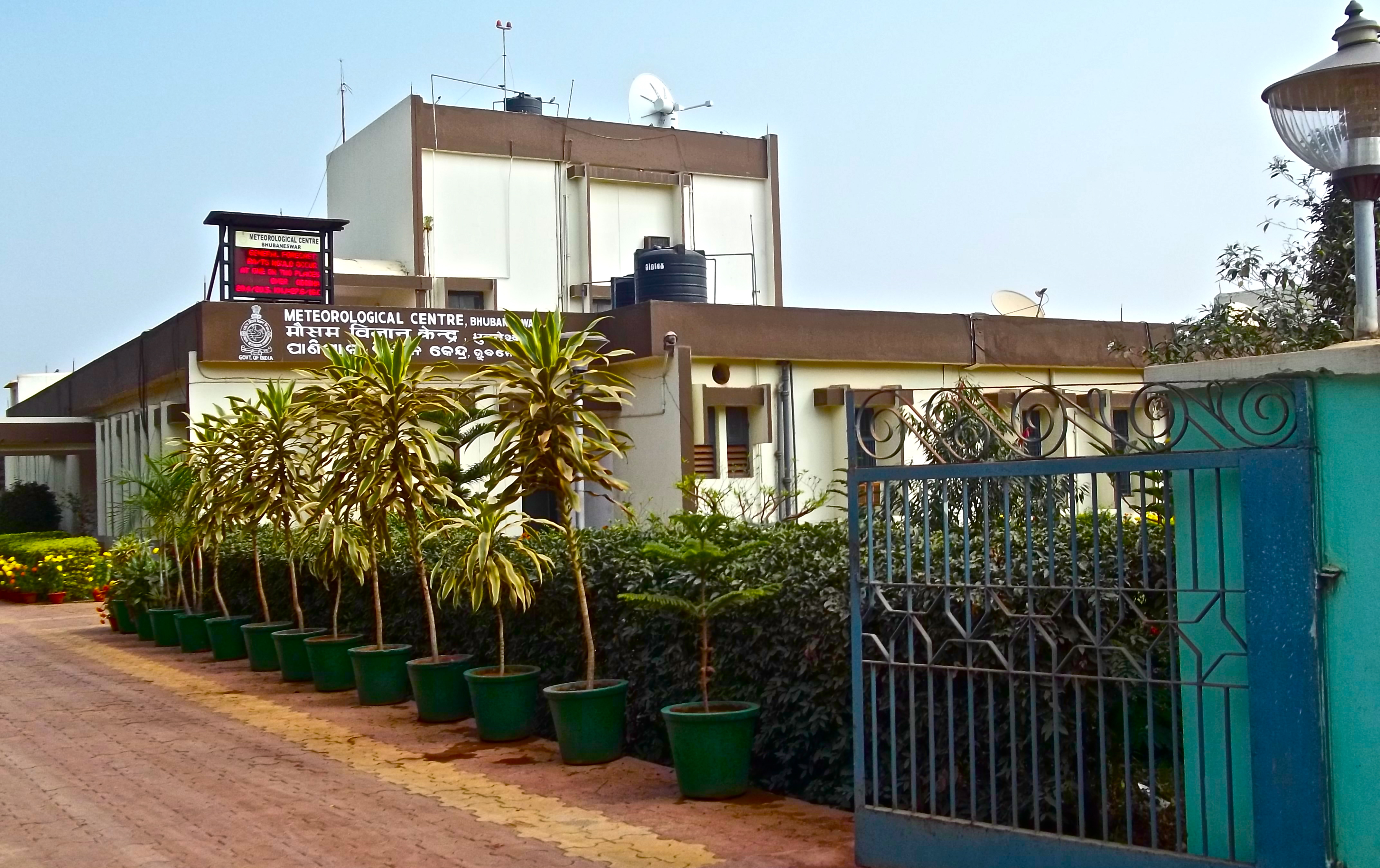 Meteorological Centre, Bhubaneswar, Odisha This media file is uploaded with Odia loves Wikipedia English |italiano |македонски |മലയാളം |ଓଡ଼ିଆ +/− ଓଡ଼ିଆ: ପାଣିପାଗ ବିଜ୍ଞାନ କେନ୍ଦ୍ର, ଭୁବନେଶ୍ଵର